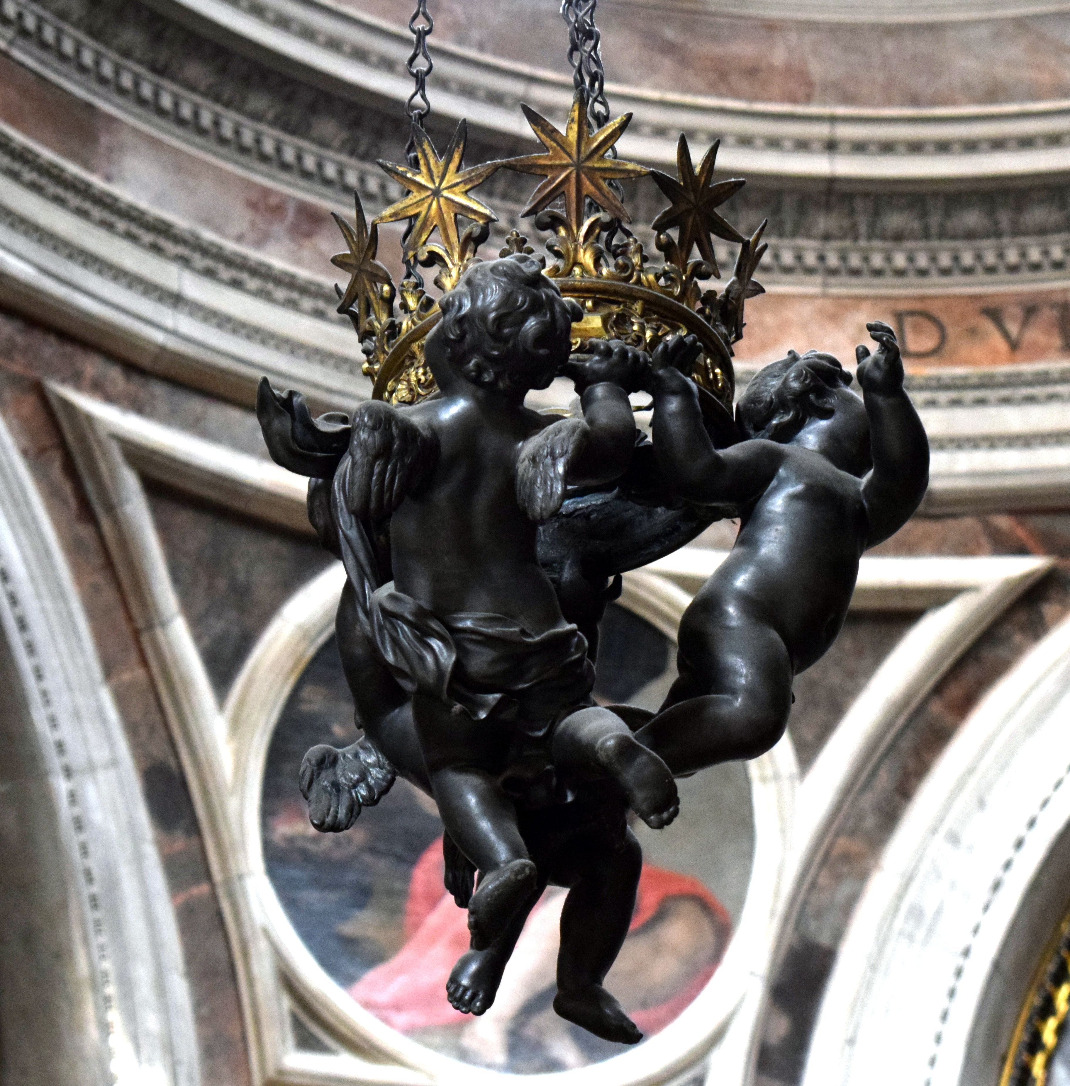 Bronze lamp in the Chigi Chapel, Santa Maria del Popolo by Gianlorenzo Bernini (with Peter Verpoorten and Francuccio Francucci) from 1657